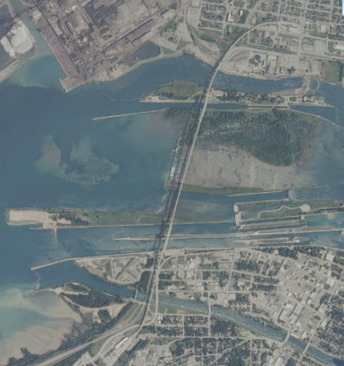 View of the Sault Ste Marie railway bridge.